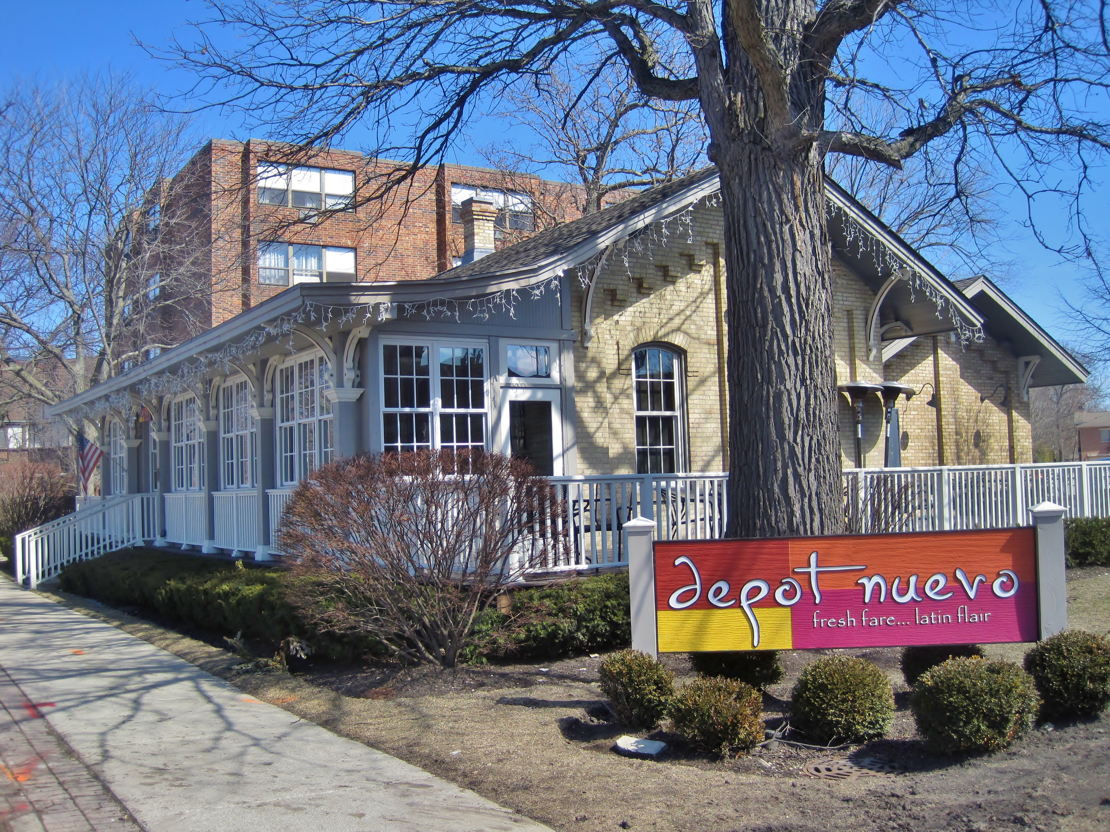 Chicago and Northwestern Depot in Wilmette (1873). The first railroad station in Wilmette was built on this line in 1871. It burned down a year later, ten citizens donated money to build this fireproof station in its place. By the 1890s, commuter demand had exceeded this station's capacity, and a new passenger station was built. This station then became Wilmette's freight depot. Freight service ended in 1946. The station was moved away from the railroad tracks in 1974 to avoid demolition.